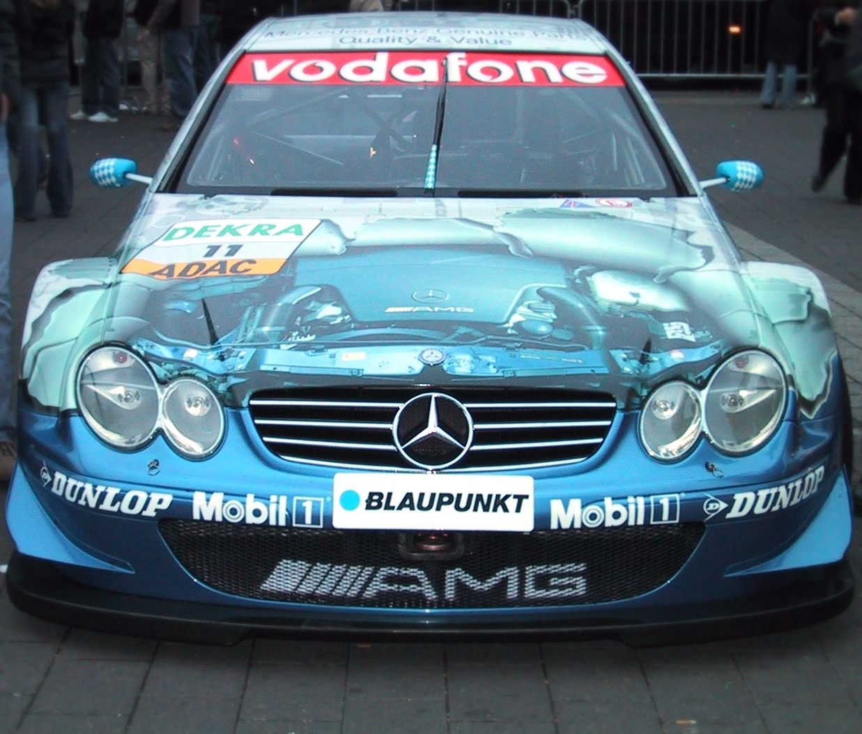 DTM car Mercedes-Benz AMG (Stars and Cars 2003)